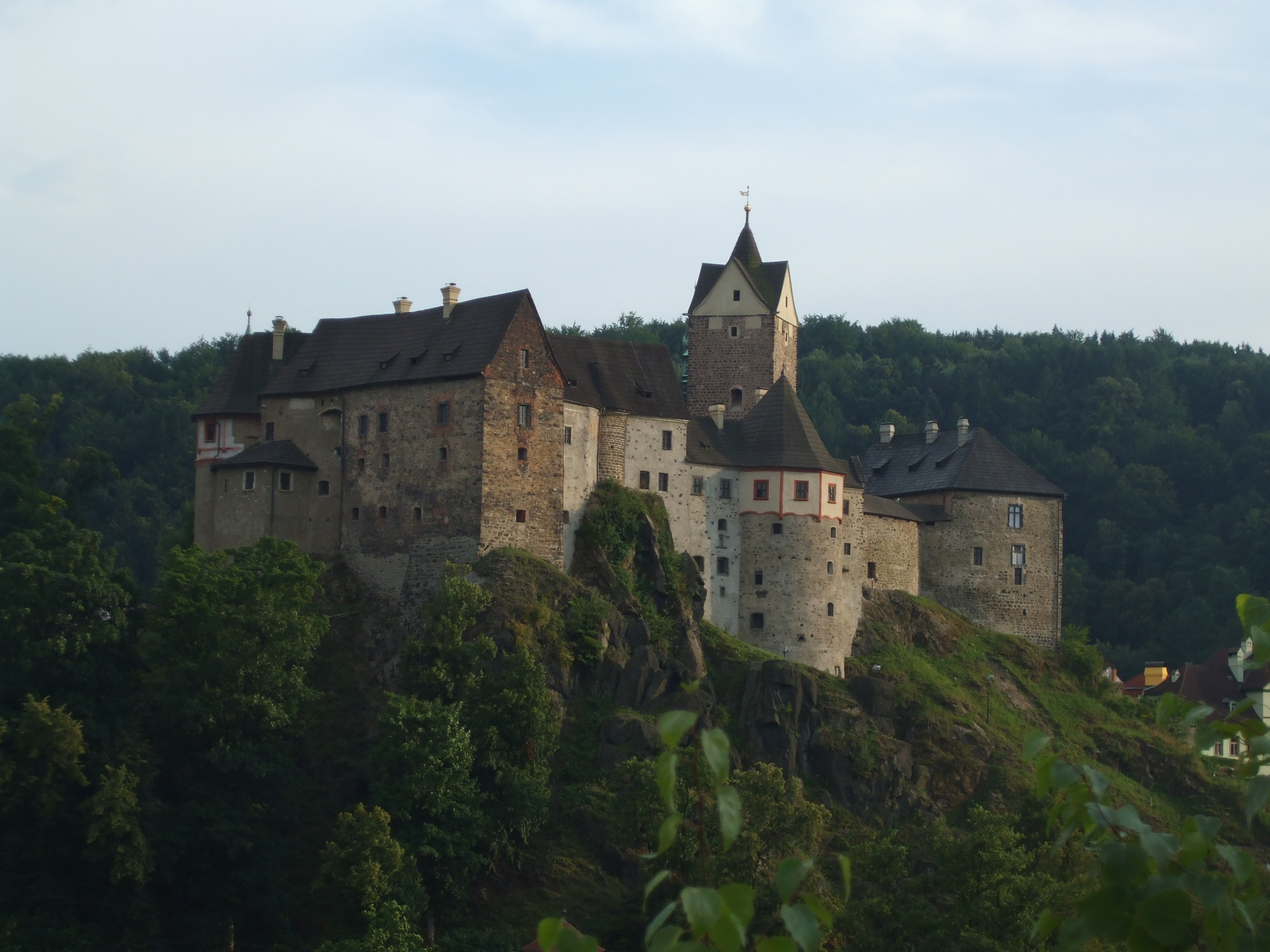 View of Loket Castle